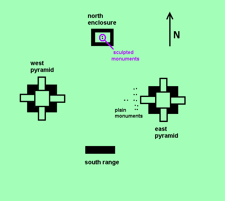 Plan of a typical Maya twin pyramid complex. This layout is found at the Tikal complex, Guatemala. Credits Based on satellite imagery of Group Q combined with William R. Coe's map of Tikal accompanying Tikal: Guía de las Antiguas Ruinas Mayas ISBN 84-8377-246-9.